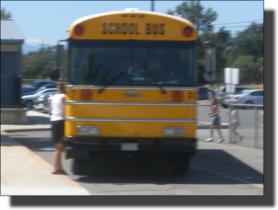 First Day at Prairie School